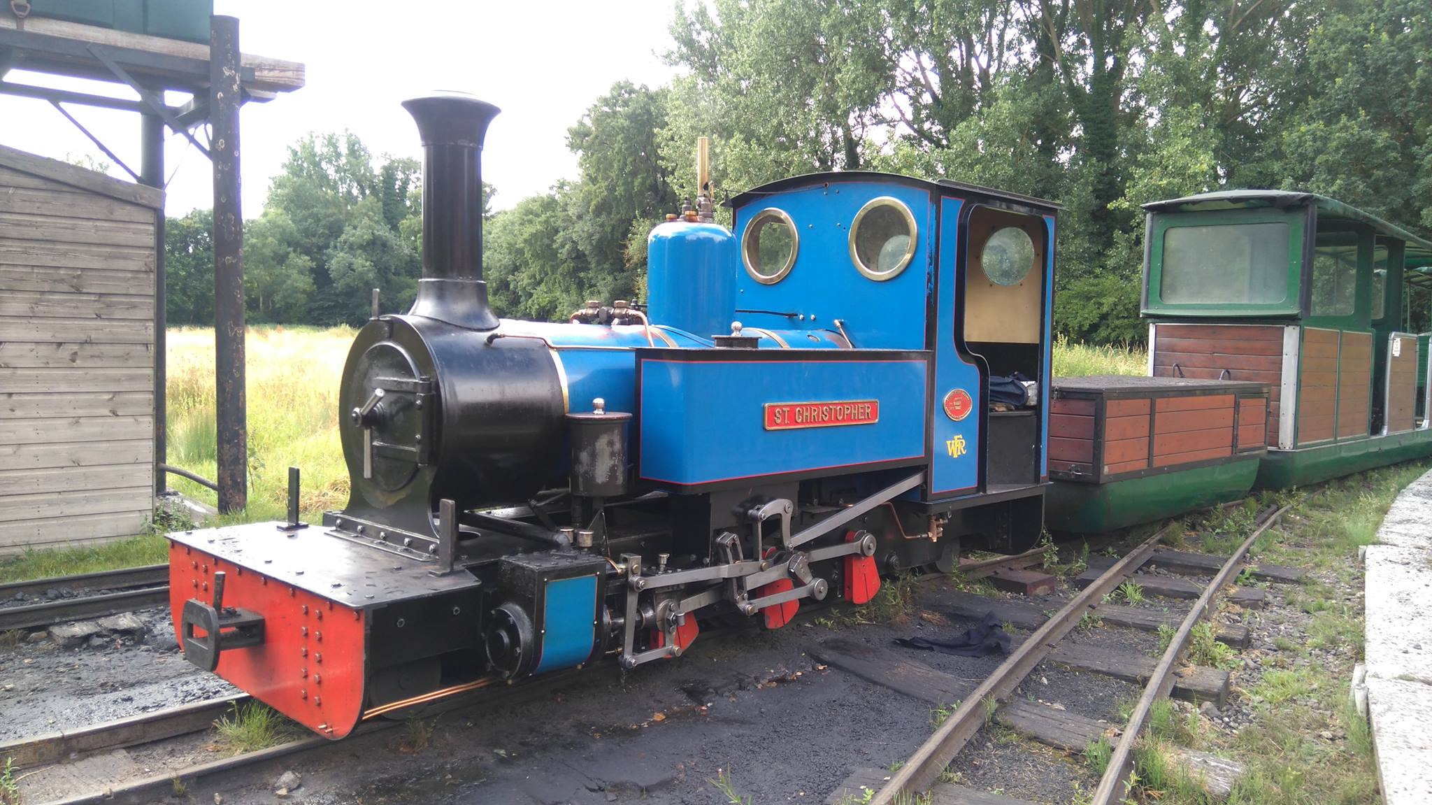 2-6-2T 'St Christopher' shortly after completing a circuit of the Waveney Valley Railway at Bressingham Steam and Gardens.